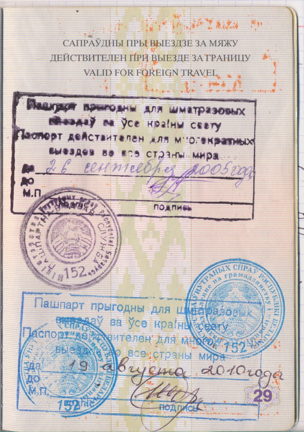 Page 29 of Belarusian passport scanned by me. Includes two permission stamps which were required for foreign travel before 2008.